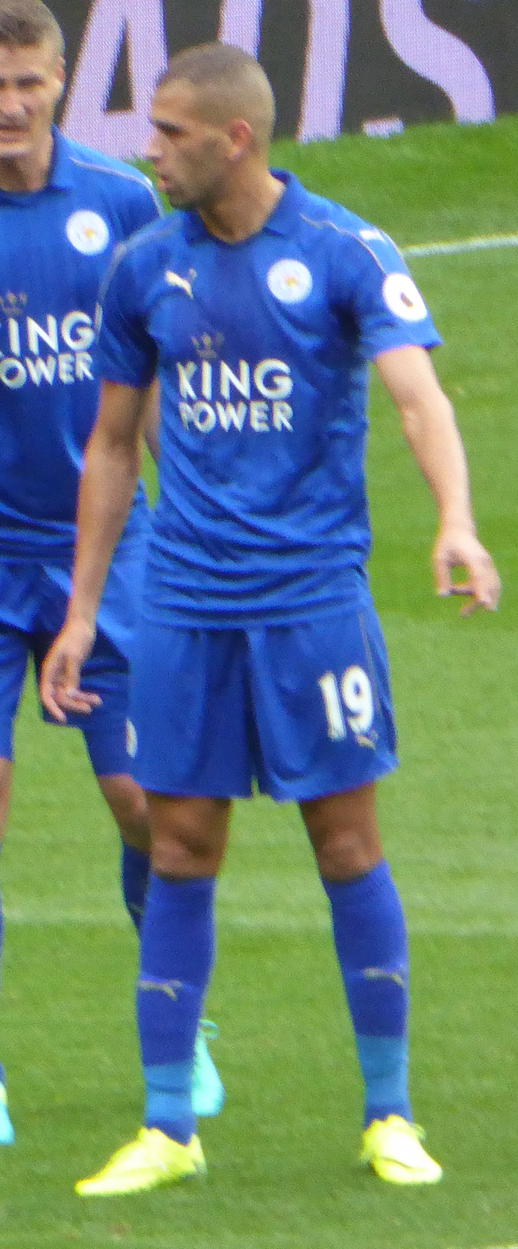 Manchester United v Leicester City (4-1), Old Trafford, Manchester, Greater Manchester, England, September 2016